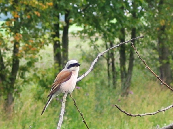 male Red-backed shrike